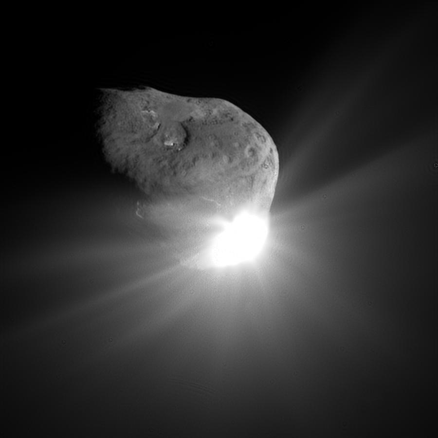 This spectacular image of comet Tempel 1 was taken 67 seconds after it obliterated Deep Impact's impactor spacecraft. The image was taken by the high-resolution camera on the mission's flyby craft. Scattered light from the collision saturated the camera's detector, creating the bright splash seen here. Linear spokes of light radiate away from the impact site, while reflected sunlight illuminates most of the comet surface. The image reveals topographic features, including ridges, scalloped edges and possibly impact craters formed long ago.